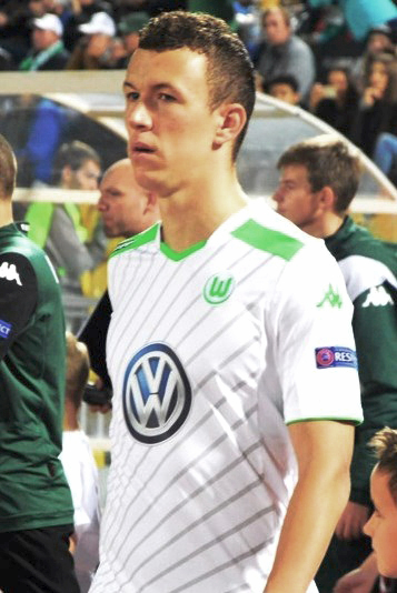 Ivan Perišić